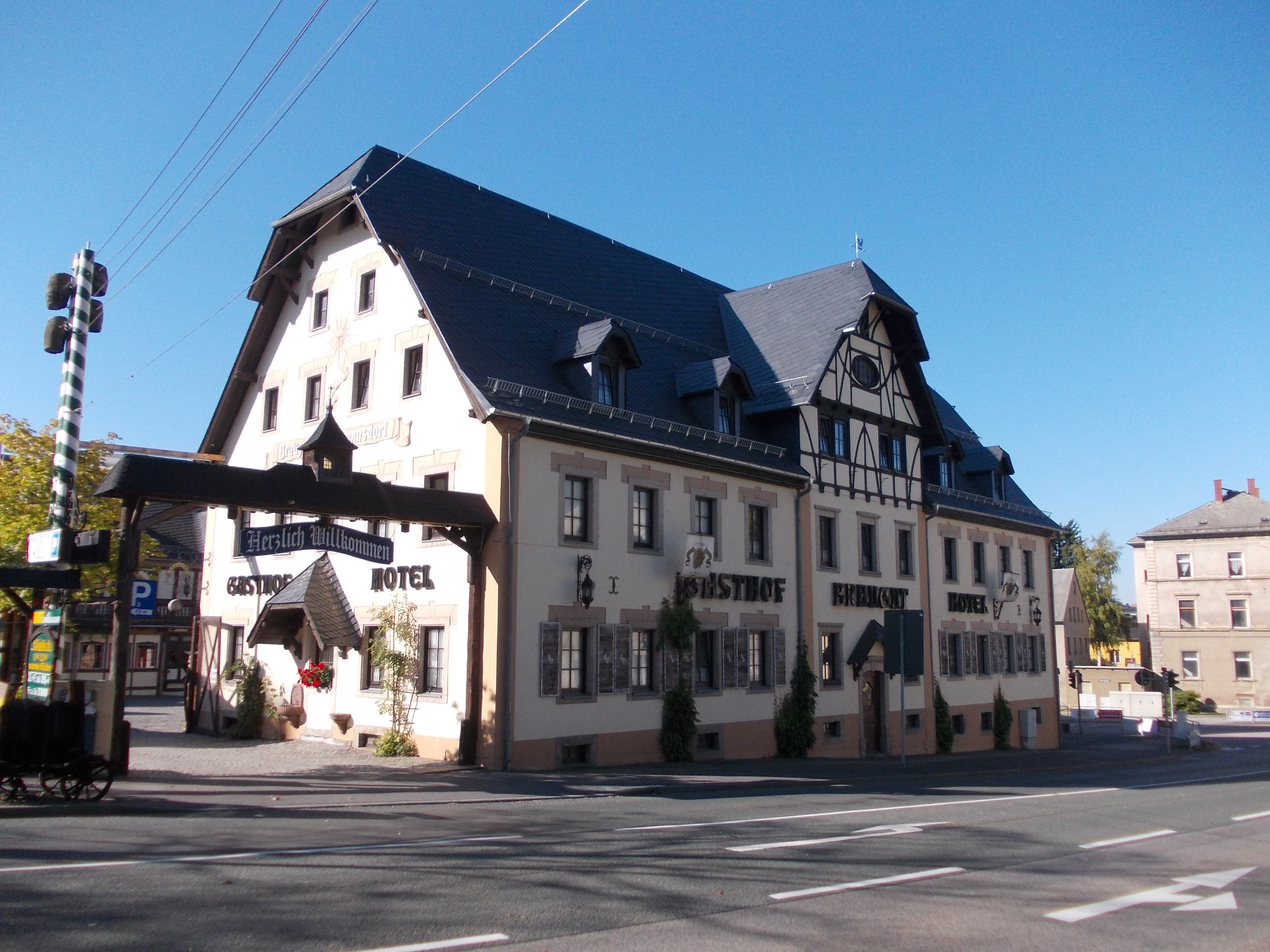 Brewery Estate in Hartmannsdorf (Mittelsachsen district, Saxony)